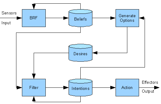 Simple Belief-Desire-Intention agent architecture. Based on diagram from BORDINI, Rafael. Programming Multi-Agent Systems in AgentSpeak Using Jason. [1]